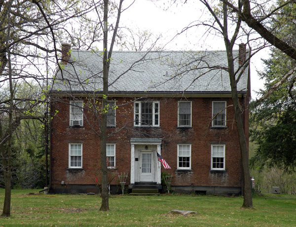 Picture of the David Littell House located at 2039 Frankfort Road (Pennsylvania Route 18) near Harshaville, Pennsylvania, on April 17, 2010. The house was built in 1851, and is listed on the National Register of Historic Places. Architects: Hayward & Cain. Architectural style: Vernacular Greek Revival. A sign by the road in front of the house says the following: "David Littell House - Built 1851 on 1796 land grant called Chestnut Flats. Fourth house on this site. Tannery was operated here 1819-1860. Littells were among first settlers in area. Significant example 19th century architecture. Named to National Historic Register 1986. Beaver County Historical Research and Landmarks Foundation".